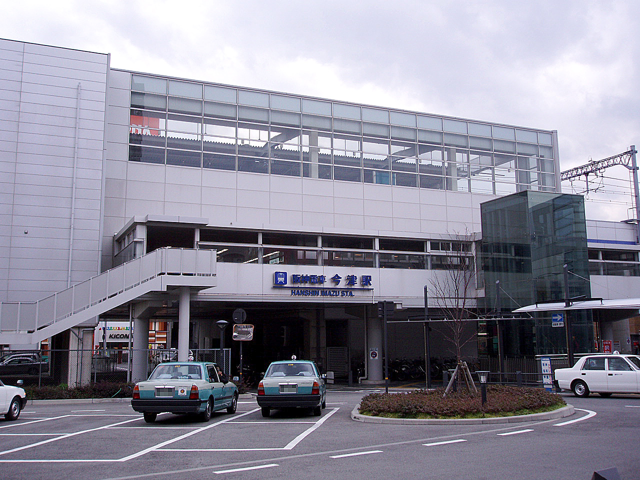 Hanshin Electric Railway Main Line Imazu Station Building（North Gate）